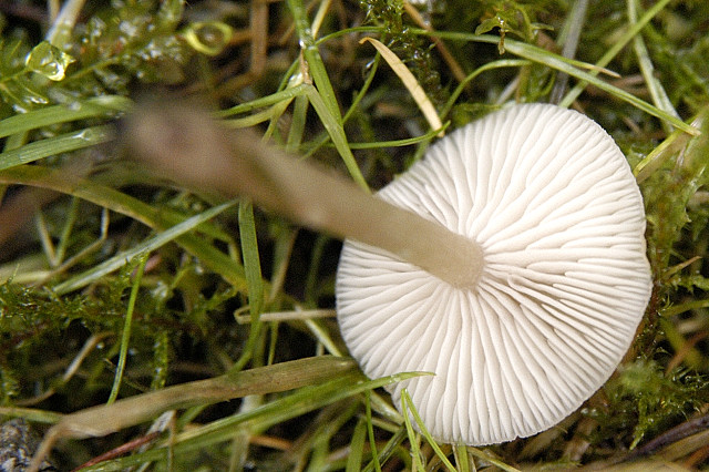 Clitocybe fragrans from Commanster, Belgium. If you think this is a different taxon, please contact James Lindsey.